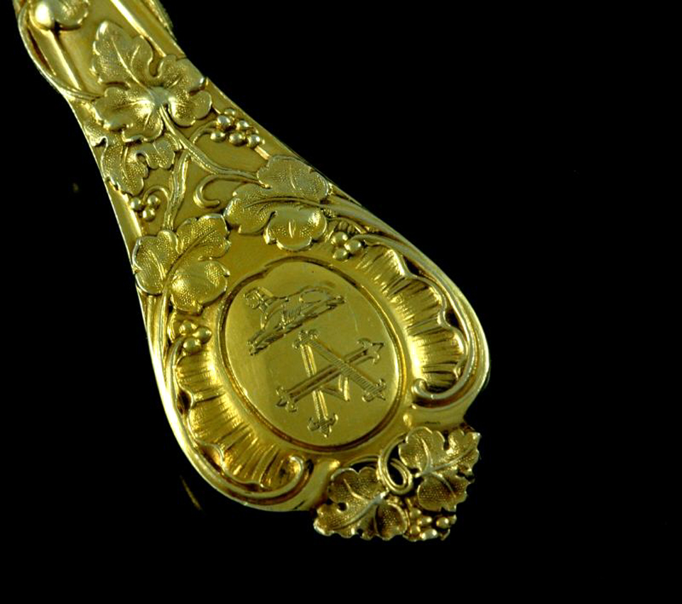 Detail of Demidov pattern, ex-collection Sir John Antoniadis, Alexandria, Egypt (Yuko Nii Foundation). My own property